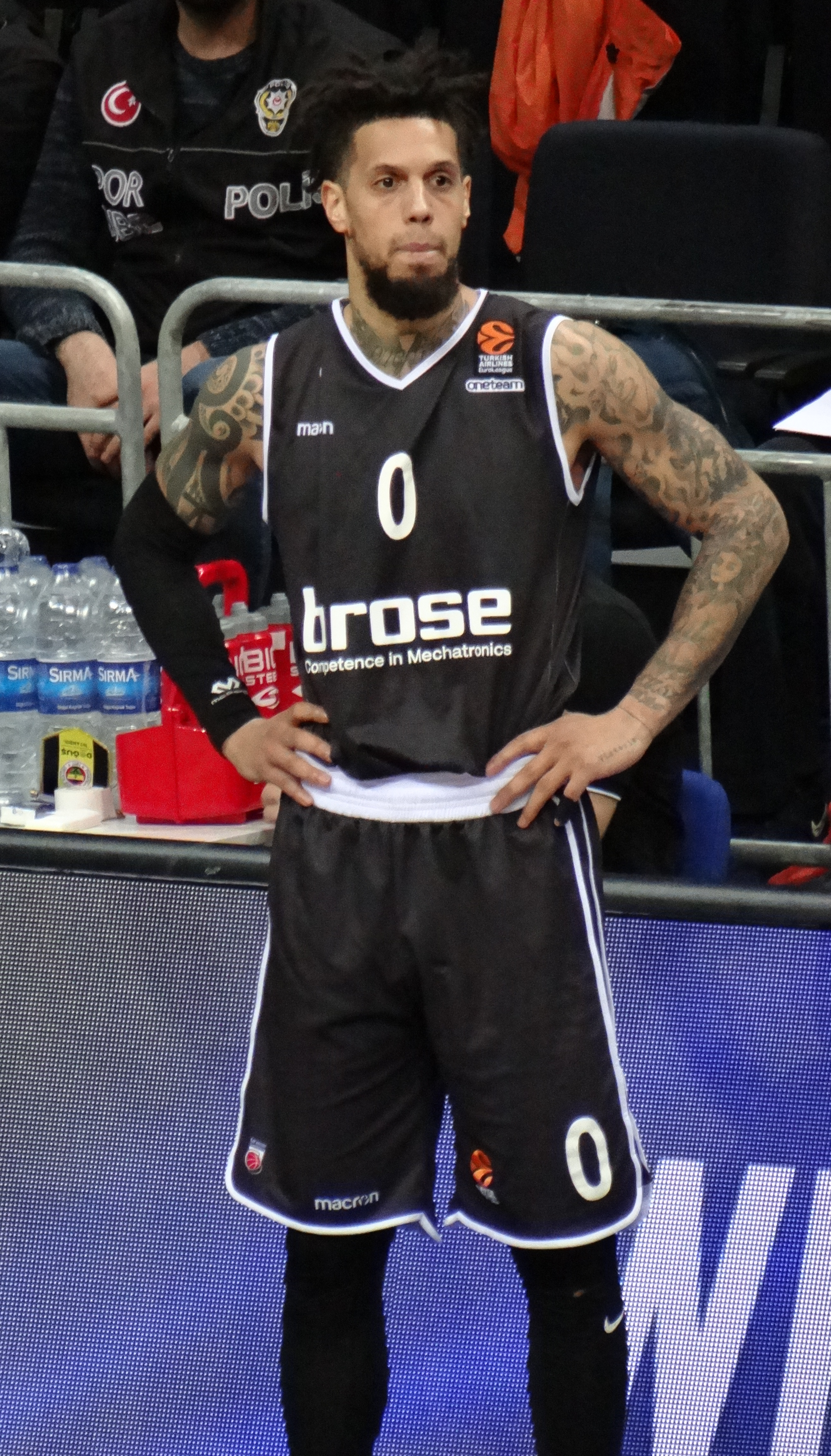 Daniel Hackett 0 Brose Bamberg EuroLeague 20180209